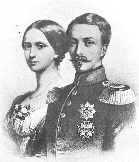 Pictured person: Princess Louise of Prussia (left) and Frederick I, Grand Duke of Baden(right)